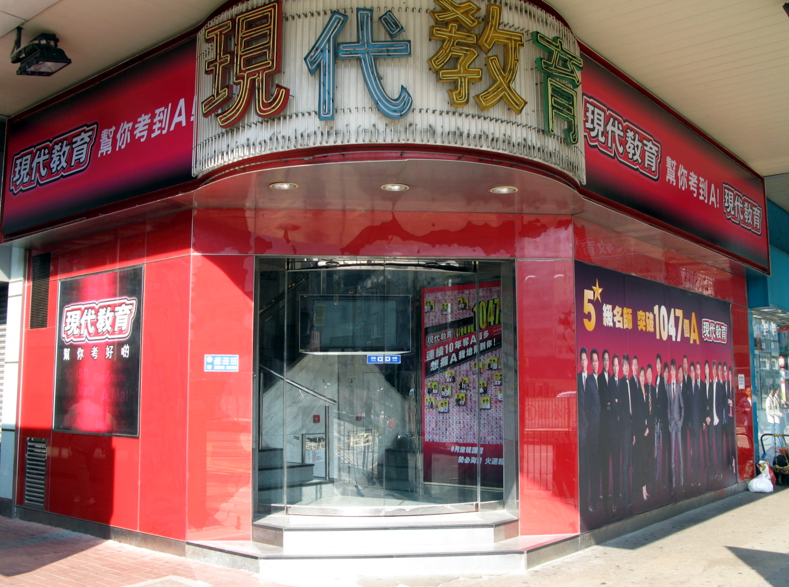 HK Modern Education Tutorial School